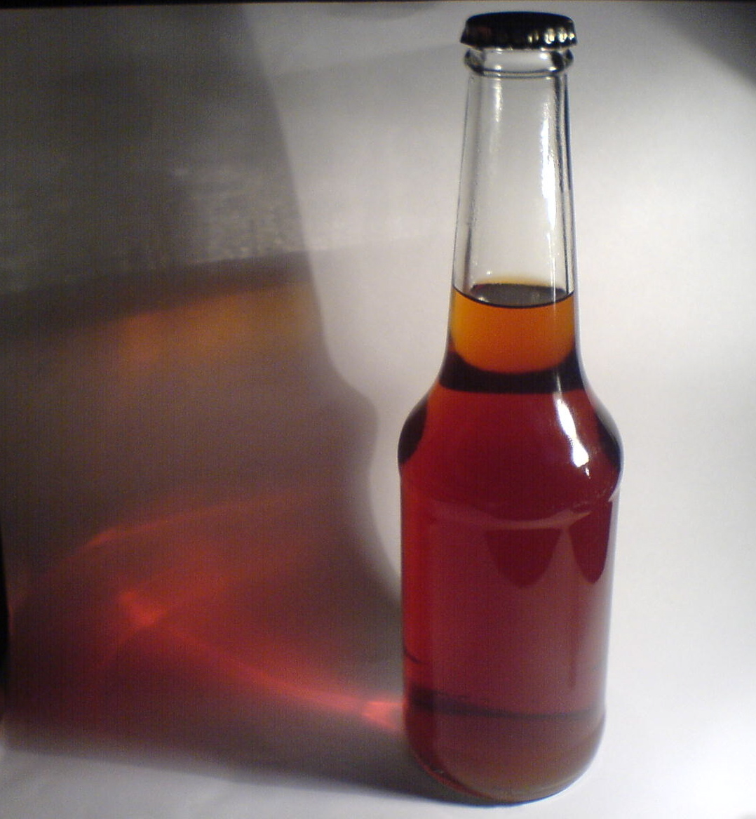 Bottled homemade beer.